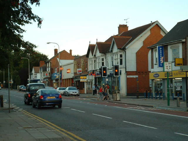 Uppingham Road Shops. In Humberstone - looking East